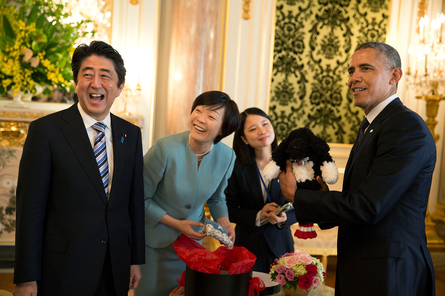 President Barack Obama holds up a Bo golf club cover, a gift given to him by Prime Minister Shinzō Abe and Mrs. Akie Abe at Akasaka Palace in Tokyo, Japan, April 24, 2014. (Official White House Photo by Pete Souza)